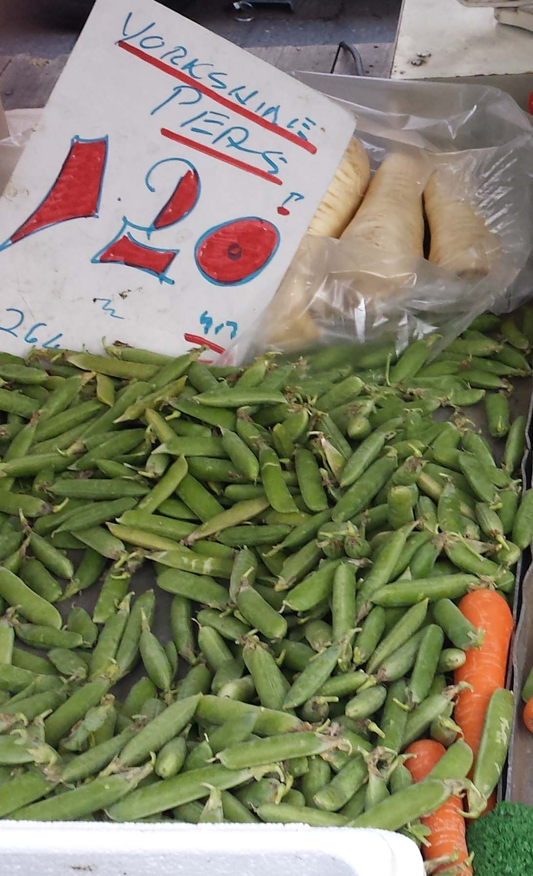 Peas for sale on a UK greengrocer's market stall in August 2013 at £1.20/lb (price per pound weight)